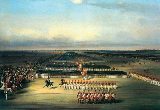 Russo-Prussian parade in Kalisz 1835